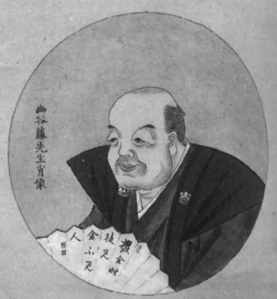 Portrait of Yukoku Fujita,hanging scroll